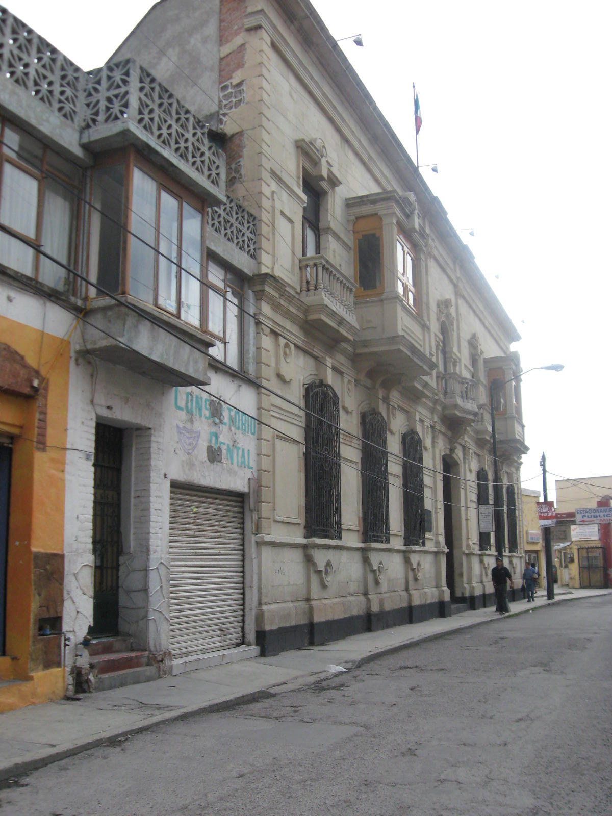 The Historical Archive and Museum of Mining—Archivo Historico y Museo de Minería — a mining museum in Pachuca de Soto, Hidalgo state, México. It covers the history of extensive mining in Hidalgo, that was begun by the Spanish in 1556 for silver. Located in the 19th century "Cajas de San Rafael" mansion (cantera stone facade) on Mina Street since 1993, in the Historic Centro Pachuca district of the city.